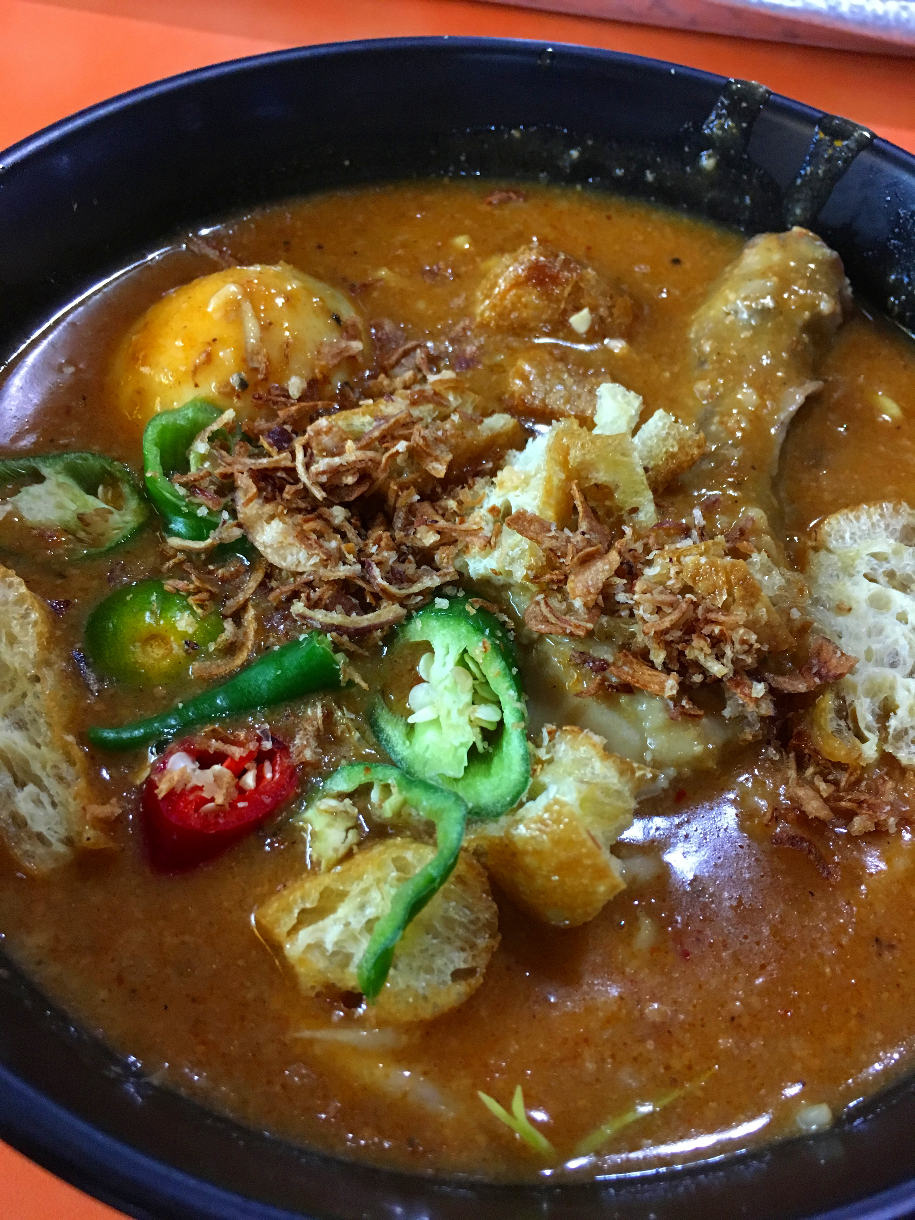 The dish is made of yellow egg noodles, with a spicy slightly sweet curry-like gravy. The gravy is made from shrimps' broth, shallots, lemongrass, galangal, salam leaf (Indonesian bayleaf), kaffir lime leaf, gula jawa (Indonesian dark palm sugar), salt, water, and corn starch as thickening agent. The dish is garnished with a hard boiled egg, dried shrimps, boiled potato, calamansi limes, spring onions, Chinese celery, green chillies, fried firm tofu (tau kwa), fried shallots and bean sprouts.